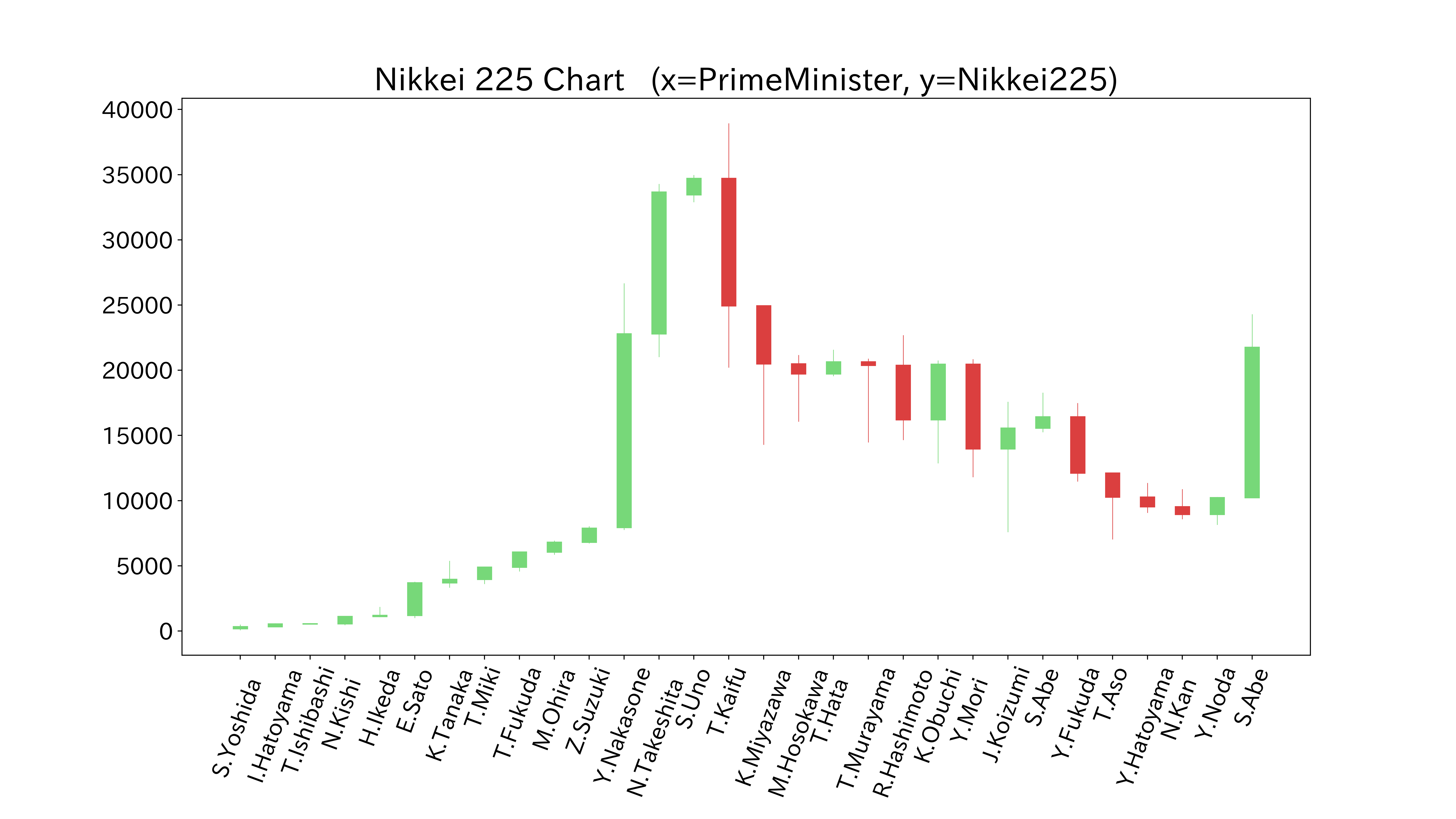 Nikkei 225 Chart (1949/05/16 - 2019/09/30) whose candlesticks represent Nikkei225 in the peroids of Japanese Prime minister's administrations. citation：